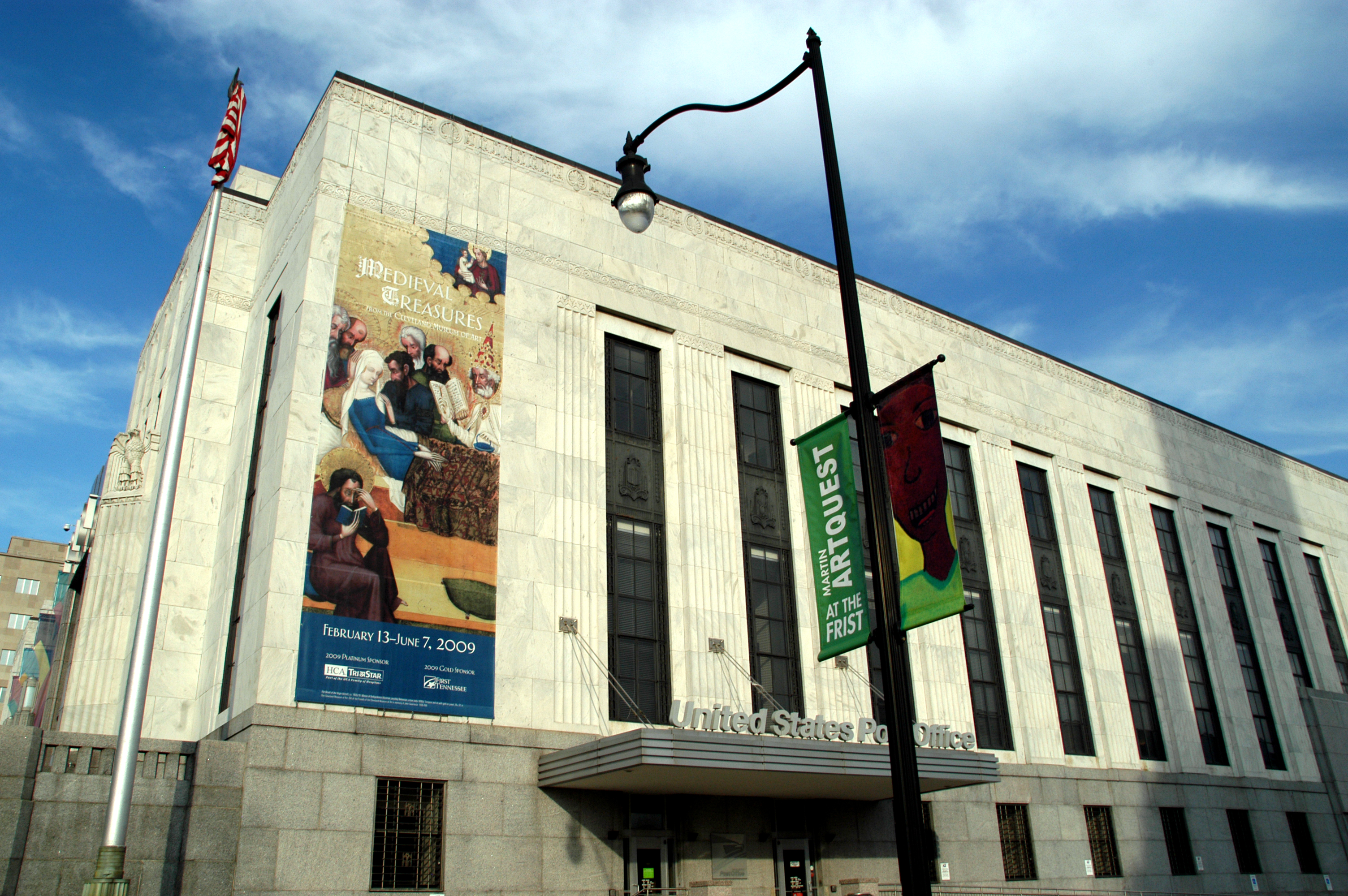 Frist Center for the Visual Arts This museum was next door to our hotel. Date Constructed: 1934 Address: Nashville, Tennessee Current Building Name: Frist Museum Earlier Building Names: U.S. Post Office Architect: Marr and Holman (restoration architects: Tuck Hinton, Inc.) Builder: Unknown at this time Current Status: In use. Designation (if applicable): National Register of Historic Places Visited October 2006. Gorgeous old post office building, now restored as the Frist Center for the Visual Arts.